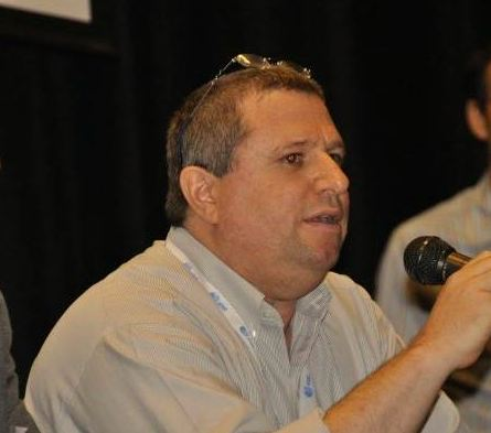 Head shot photo.